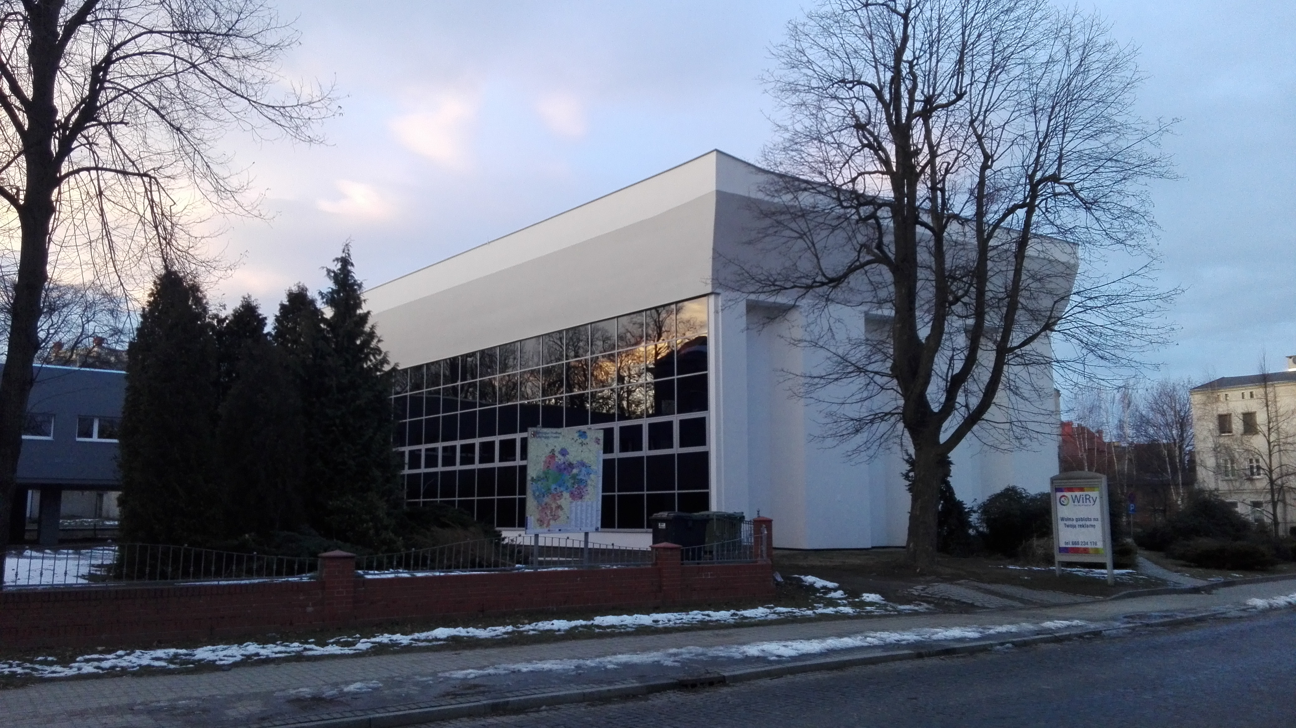 2 Gimnazjalna Street in Prudnik